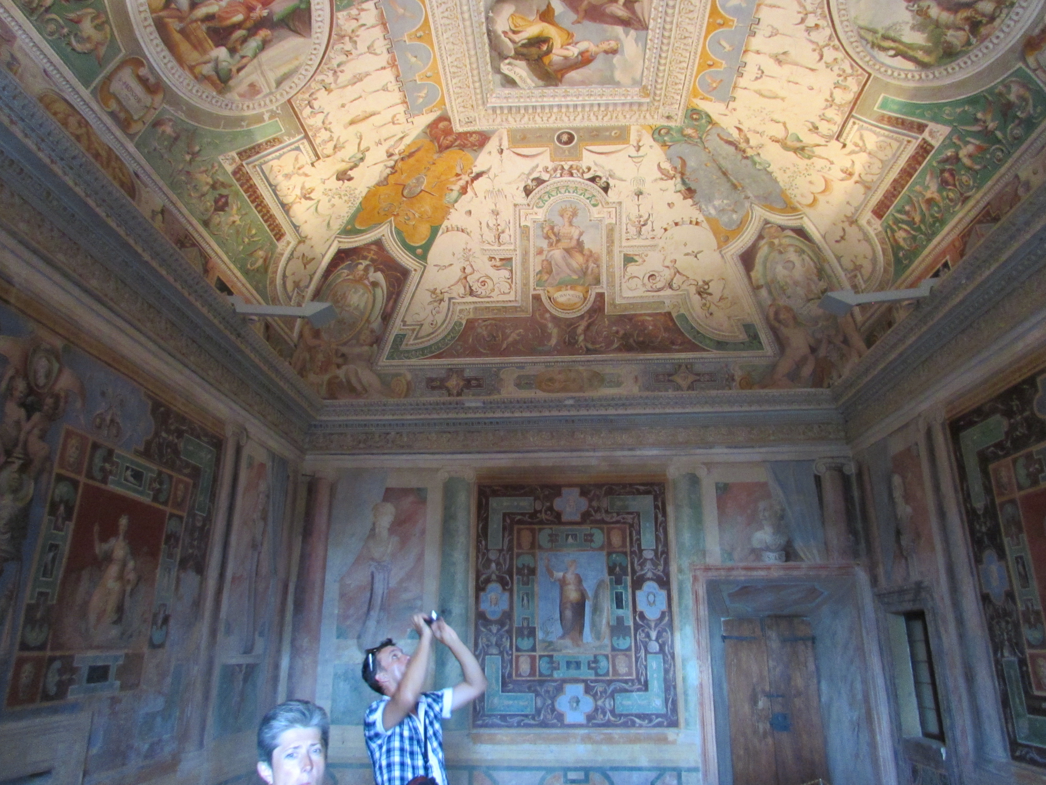 Villa d'Este (Tivoli)